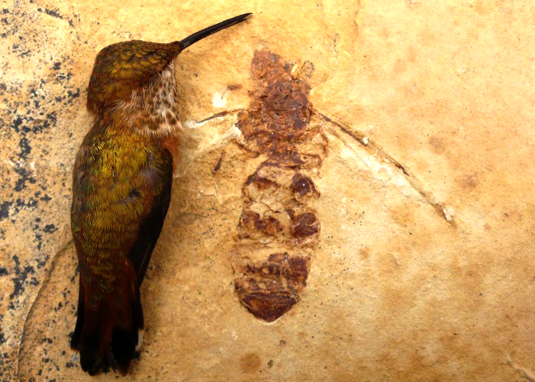 Two SFU biologists are among four scientists a fossilized giant ant that is comparable in size to a humming bird. See the story here.